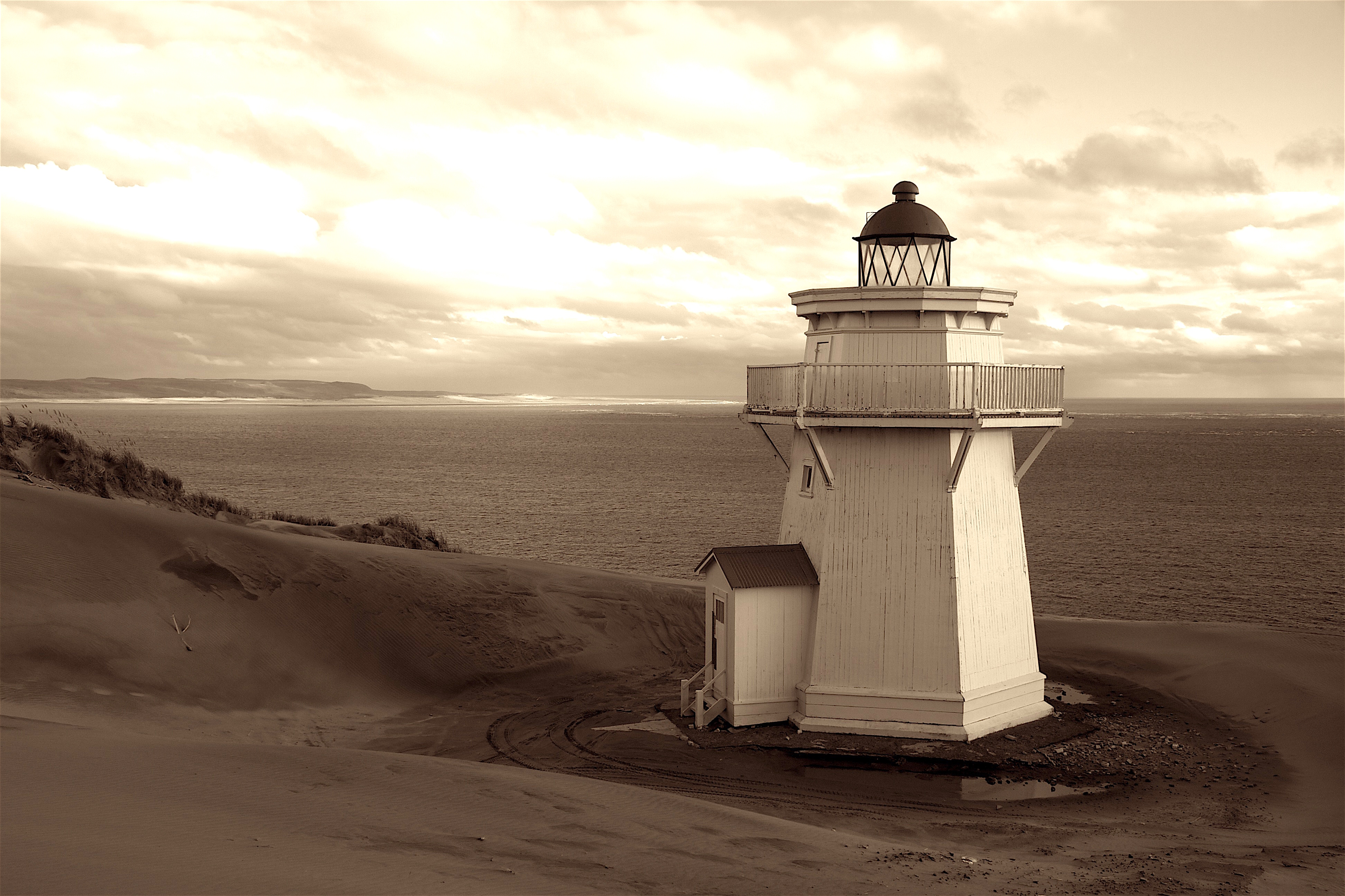 The Kaipara North Head Lighthouse was built in 1884 in response to the continued loss of ships and lives. 13.4 m wooden tower. Last wooden tower built in New Zealand. The settlement grew in response to employment opportunities but by 1920 steamers had largely replaced sailing ships, and the large sawmills had closed as the kauri forests were exhausted. In 1947 the Kaipara Harbour was closed as a port of entry to New Zealand. In 1952 the light was dismantled and the lighthouse decommissioned. The associated houses were barged to various locations around the Kaipara. Restoration and maintenance of the lighthouse is now being undertaken by the Historic Places Trust.